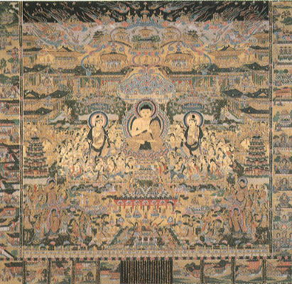 Taima Mandala (綴織当麻曼荼羅図, tsuzureori taima mandarazu) reproduction of the 8th century original